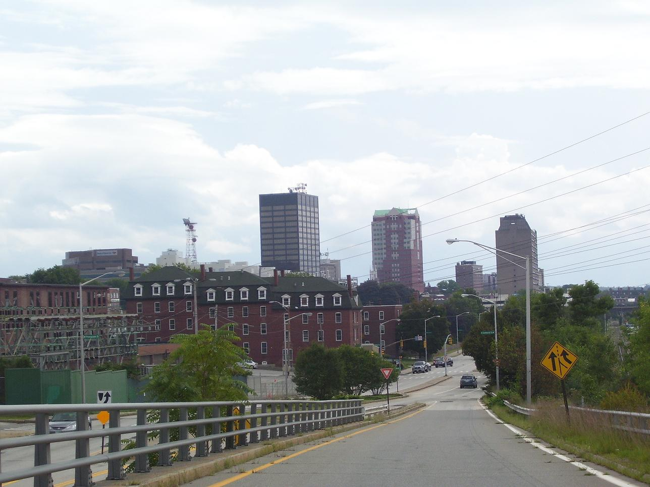 Downtown Manchester, NH